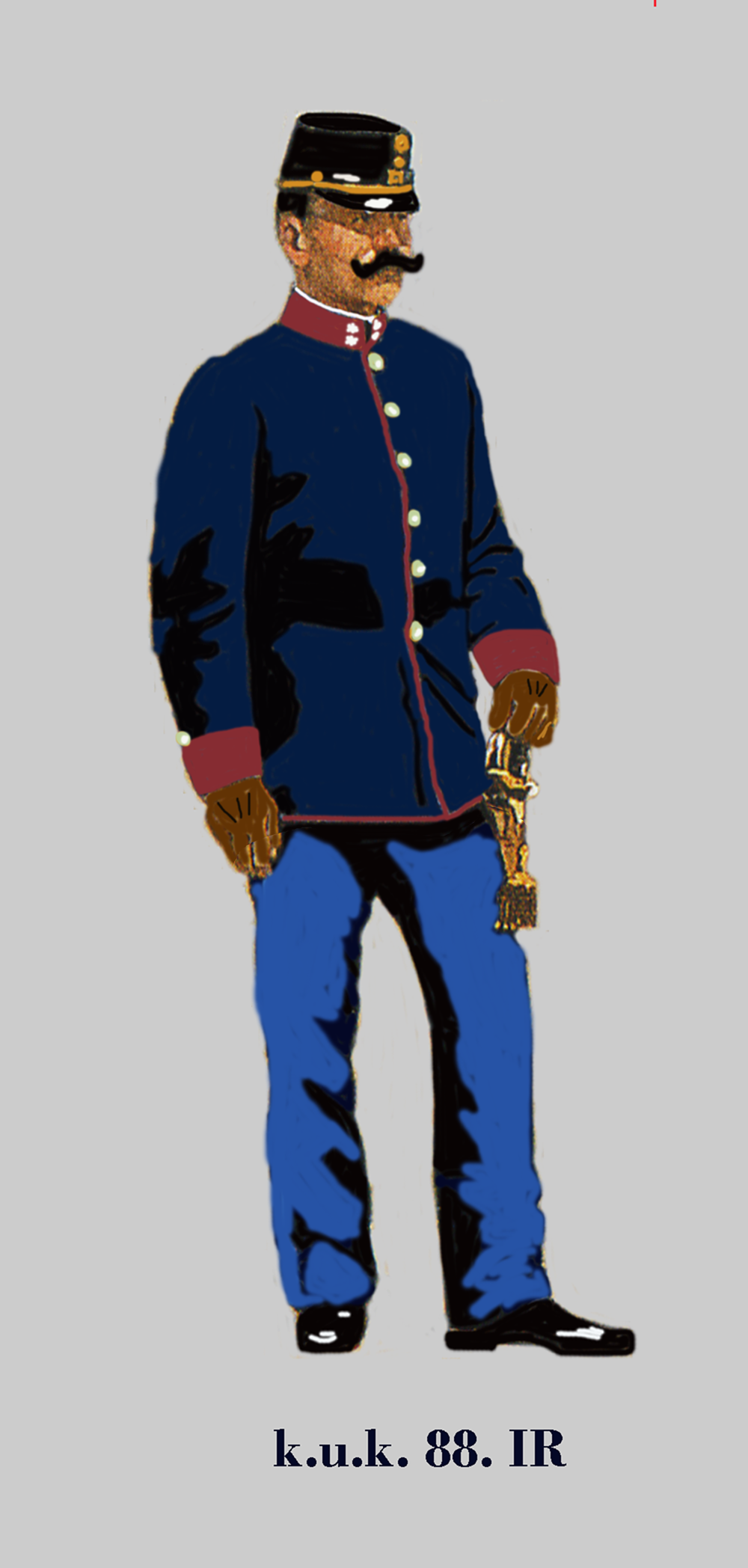 1st Lieutenant of the Austria-Hungarian (k.u.k.). 88th german Infantry Regiment in Service dress 1914